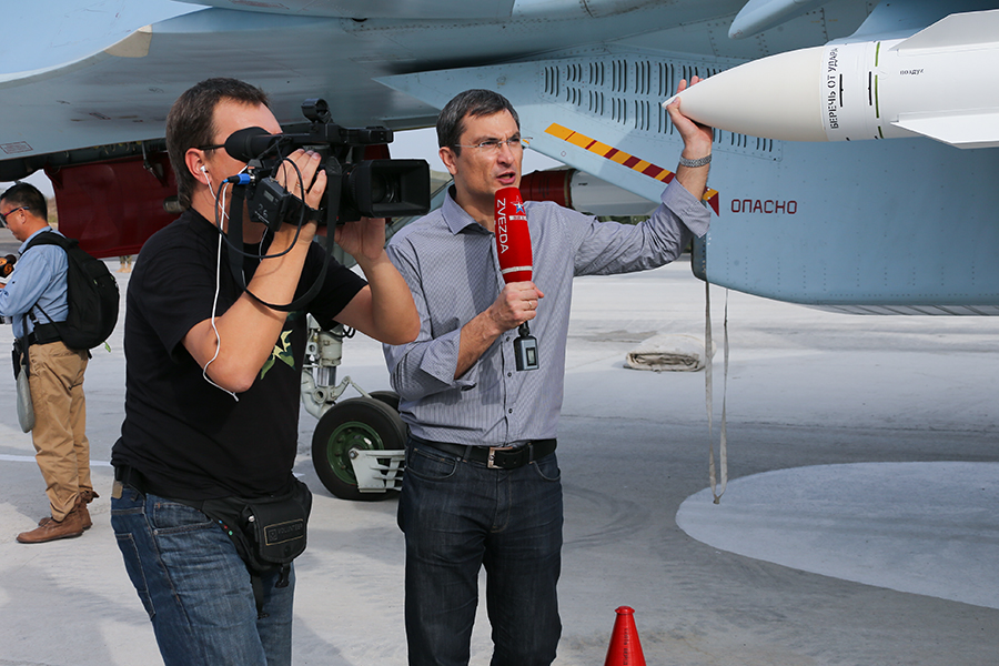 Работа ведущего программ "Служу России" и "Новости. Главное" Юрия Подкопаева на авиабазе «Хмеймим» в Сирии